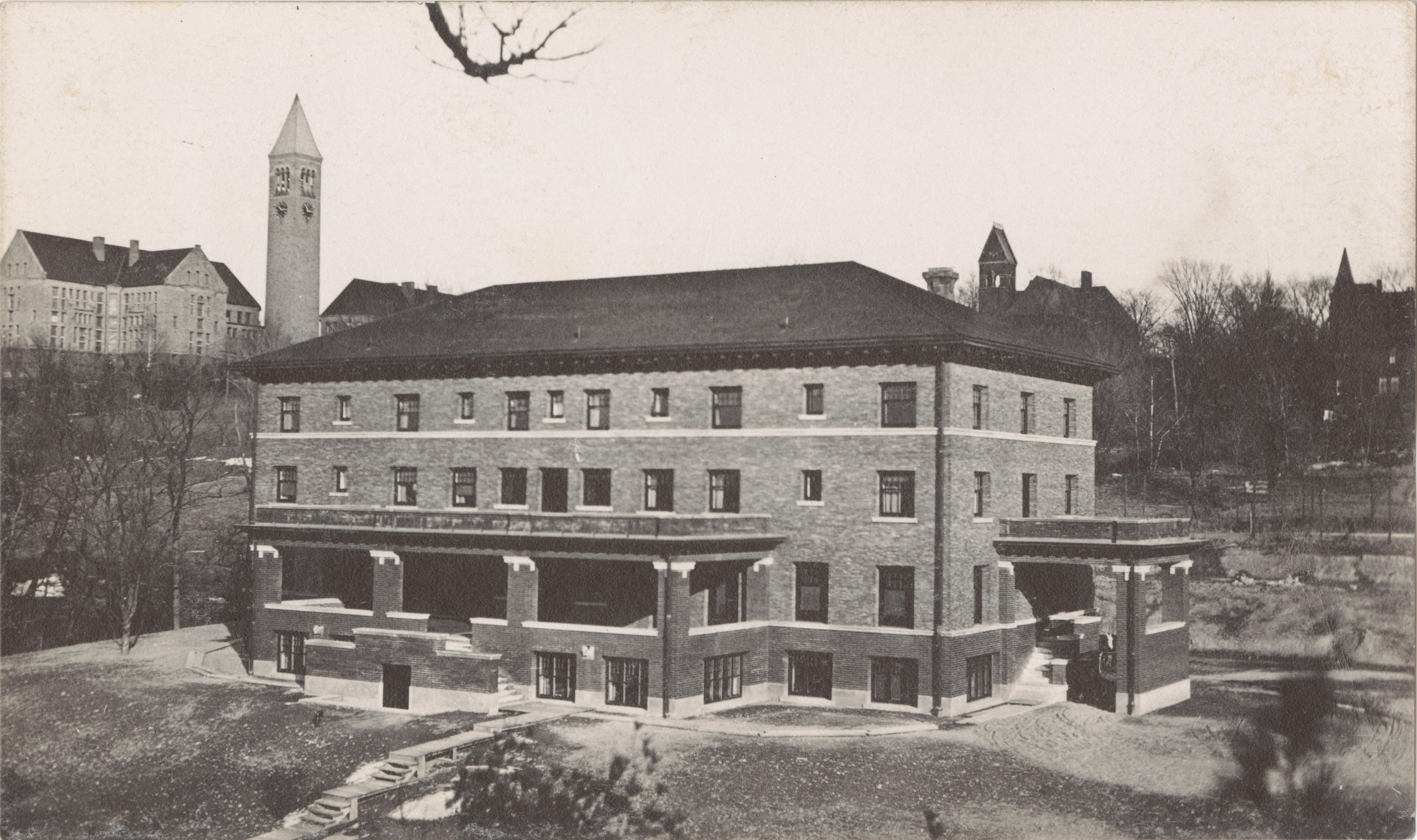 The Telluride House at Cornell University in 1910, the year it was built. In the background are the McGraw Tower and Uris Library